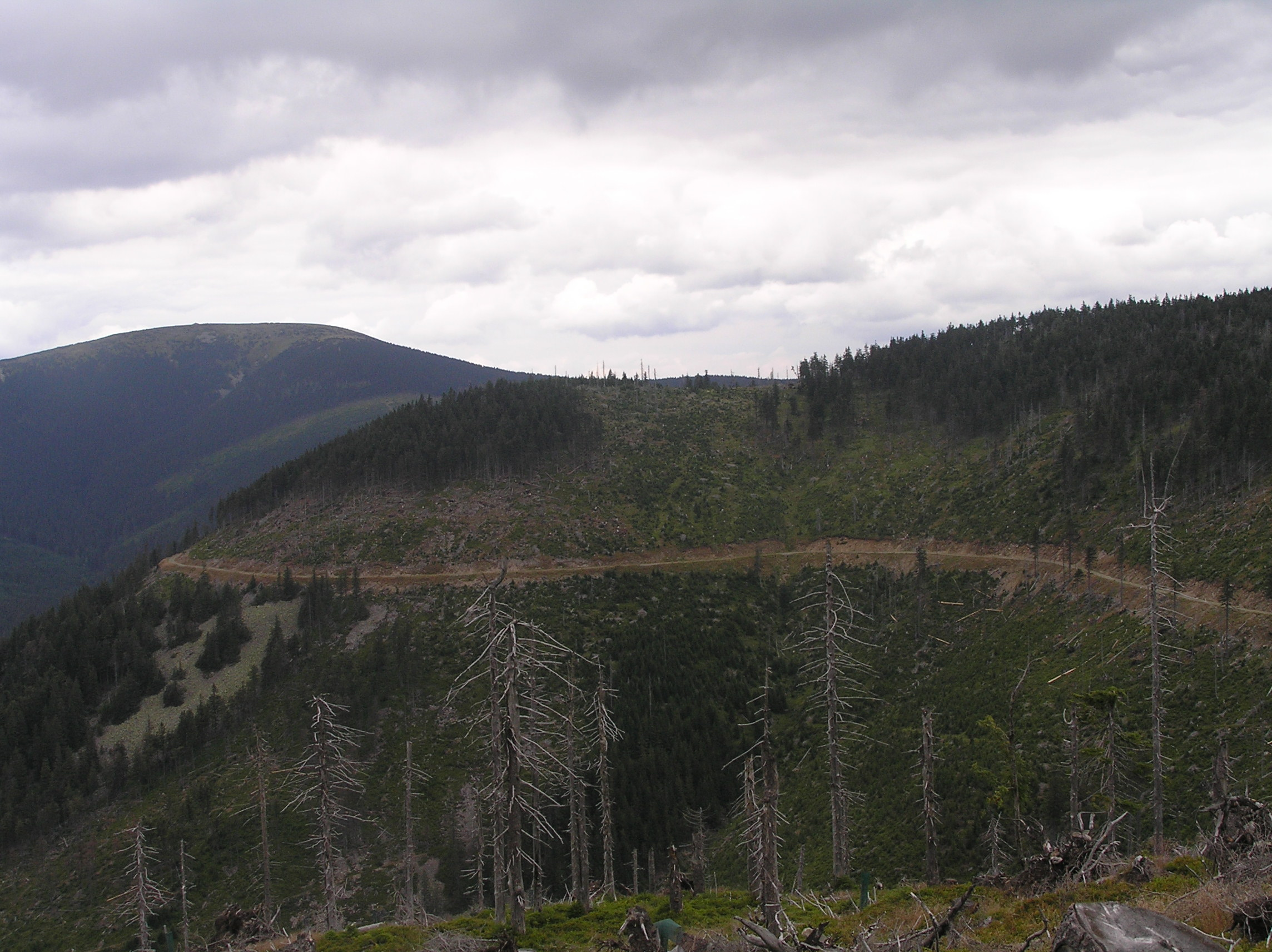 Uhlisko (1241 m) is the mountain near the the town Králíky, the Králický Sněžník Mountains, Czech Republic